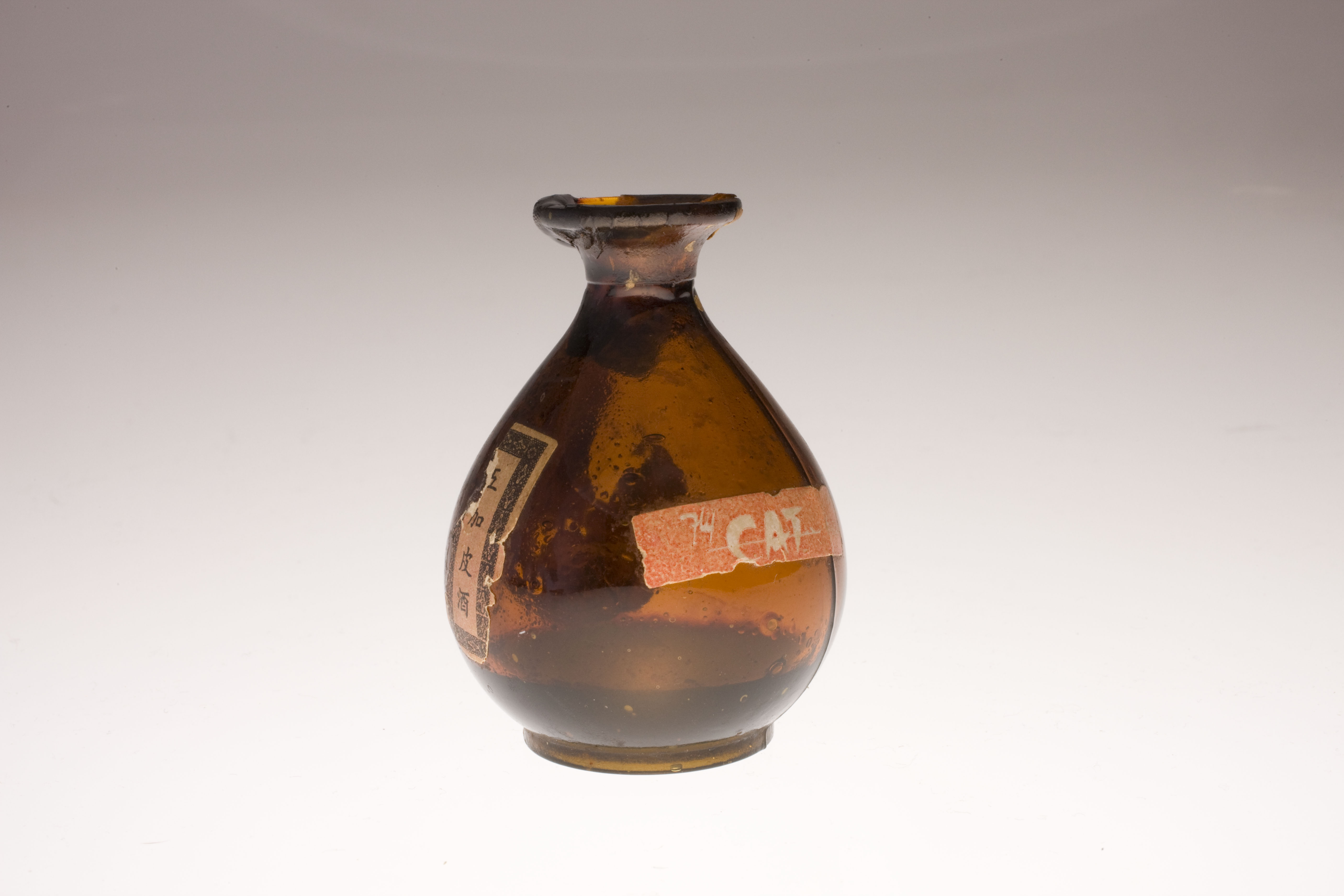 This Taiwan Tobacco and Wine Monopoly bottle contained medicinal wine (intended for a strong and healthy heart) that was served on some CAT flights. For more information on CIA history and this artifact please visit